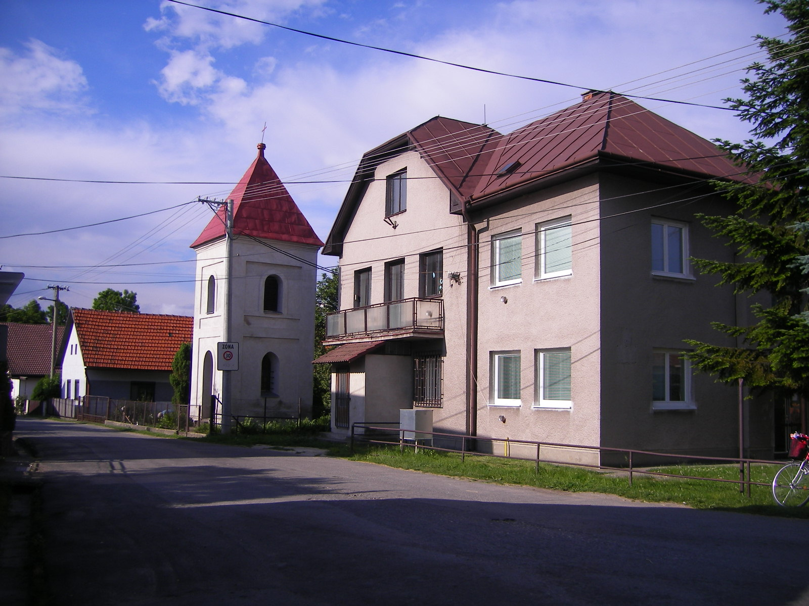 Turčiansky Peter - street view with the bell tower